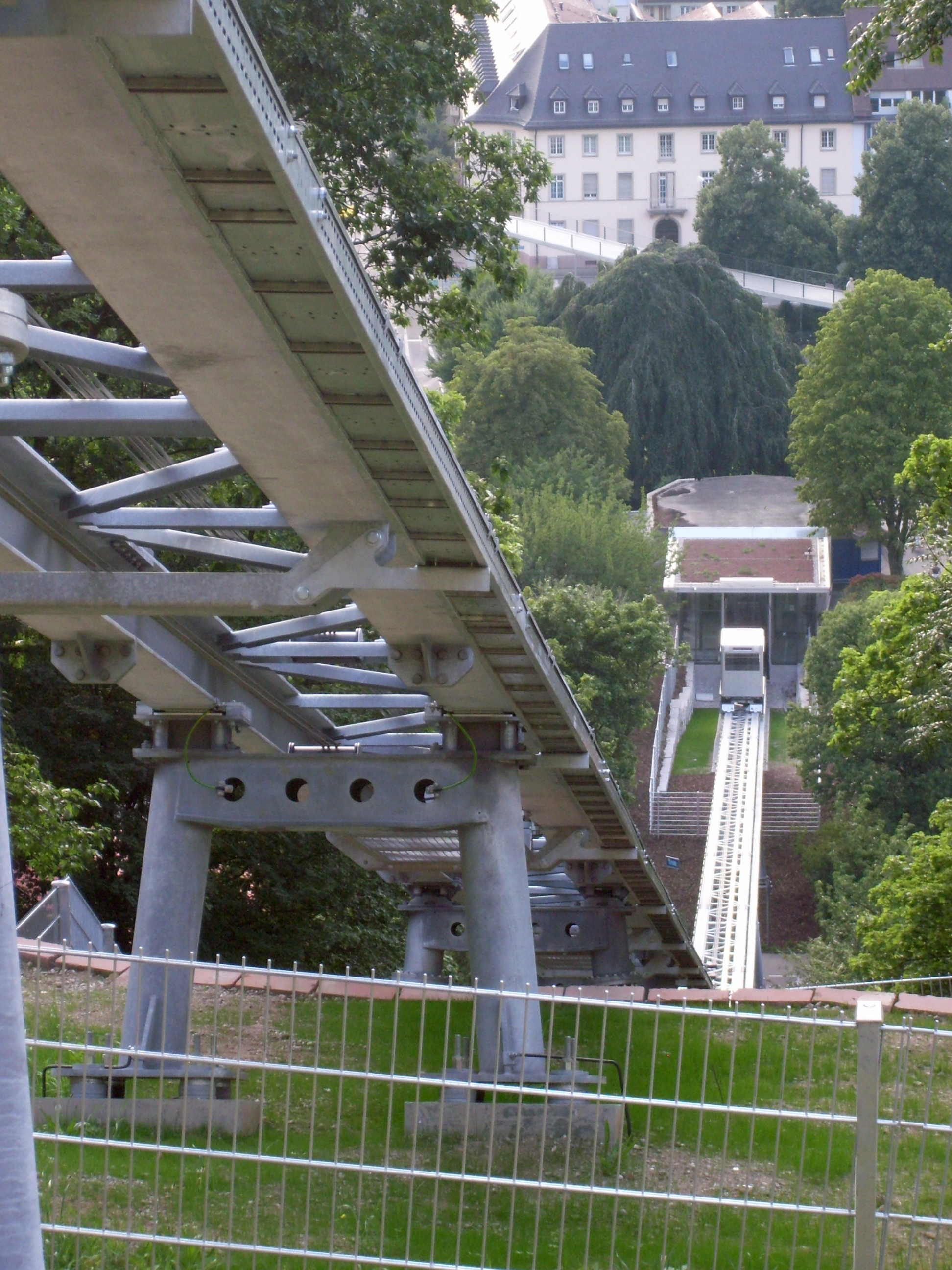 Elevator at the "Schlossberg" in Freiburg im Bresgau / Germany